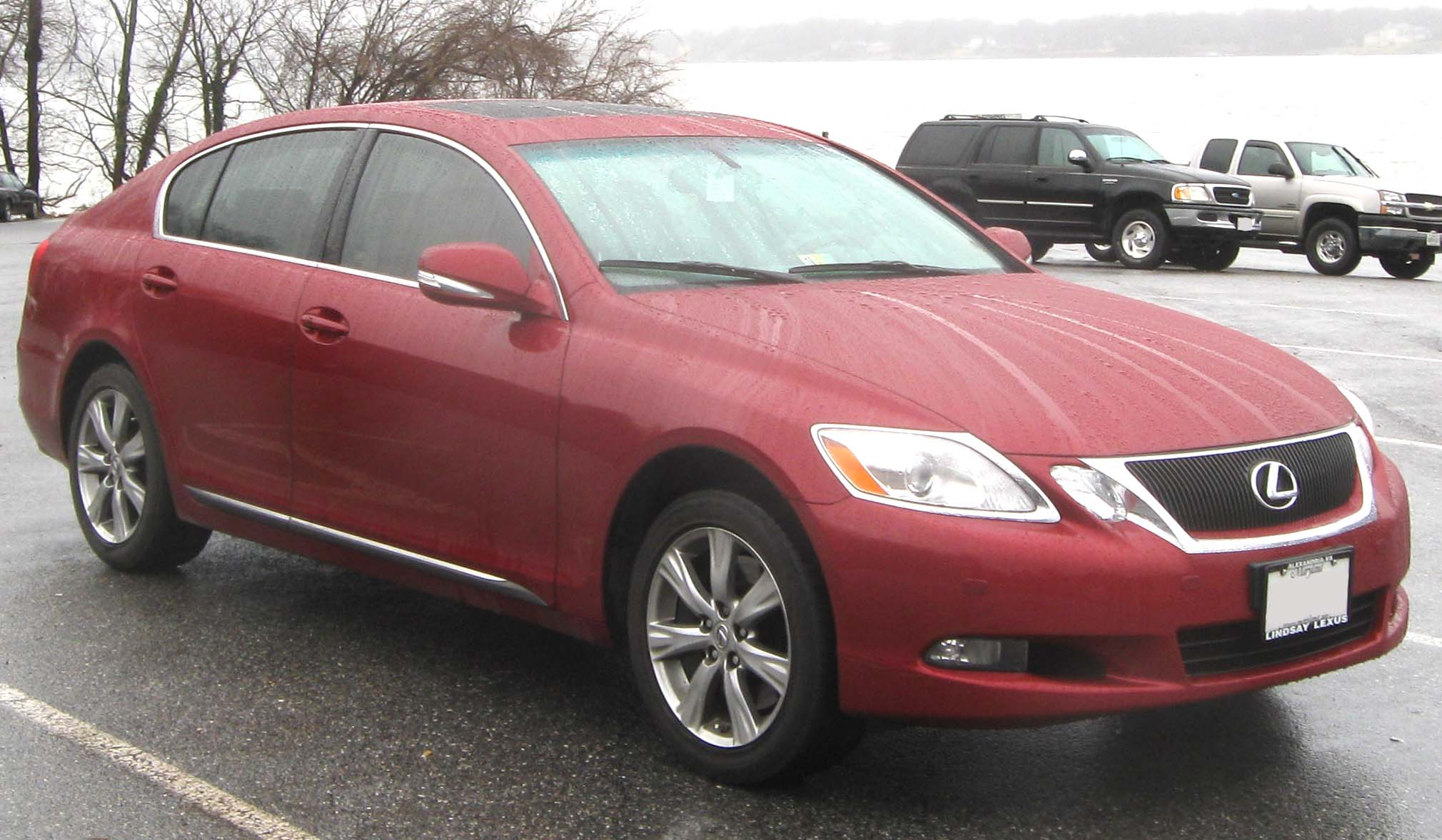 Lexus GS350 AWD photographed in Marshall Hall, Maryland, USA.